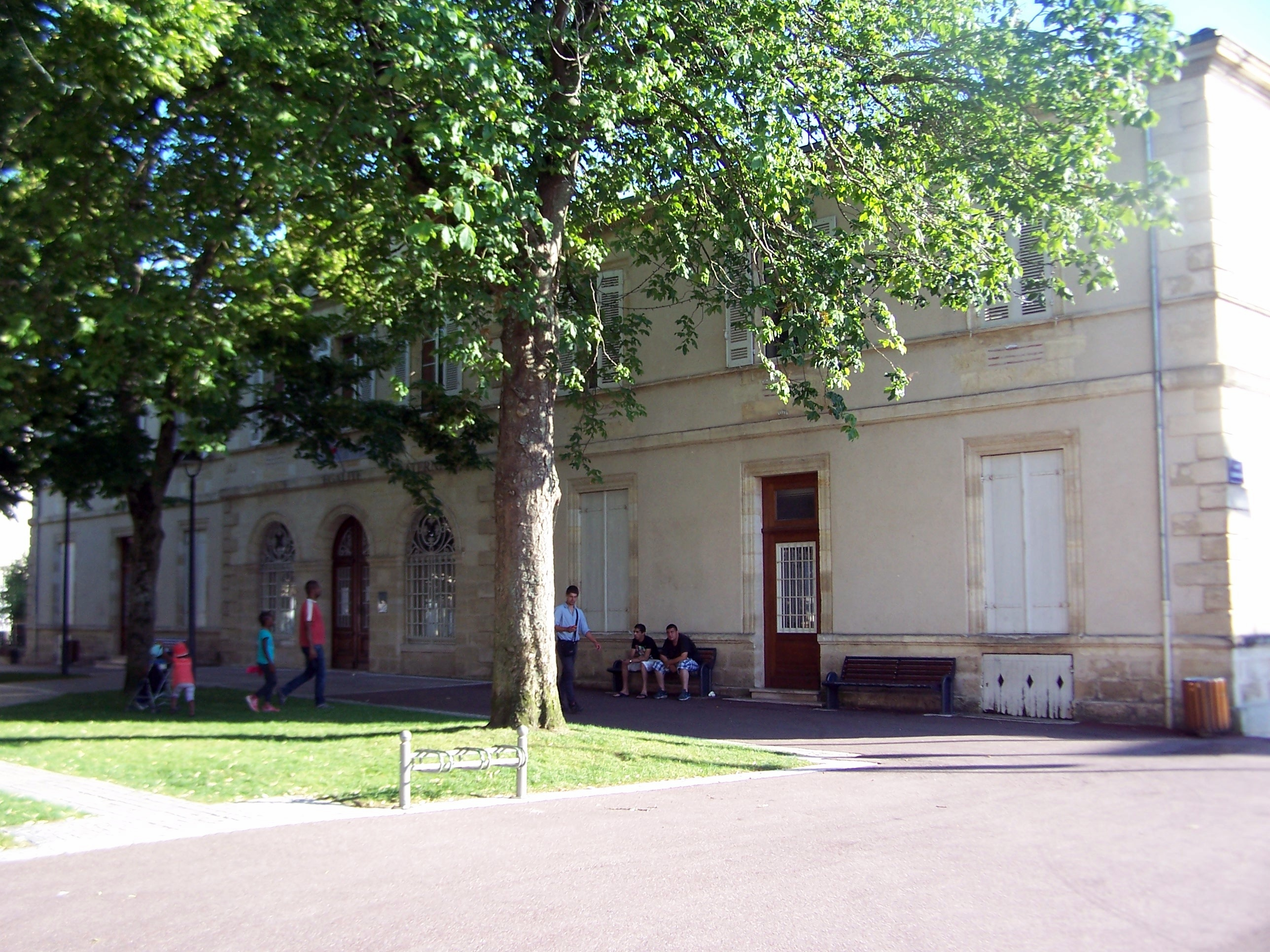 Town hall of Marmande (Lot-et-Garonne, France)